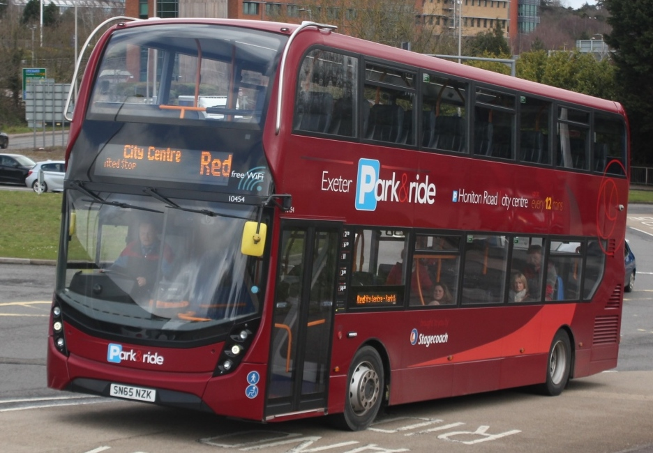 A Stagecoach Devon Enviro400 MMC (fleet number 10454; registration SN65NZK) turns in to the Honiton Road park and ride site in Exeter.